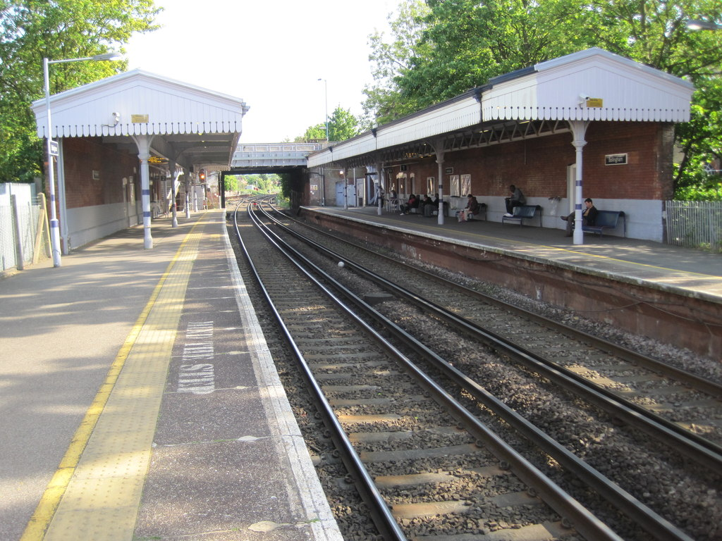 Bellingham railway station, Greater London Opened in 1892 by the London Chatham & Dover Railway on its Catford Loop line from Brixton to Bromley South. View south towards Beckenham Hill and Bromley.